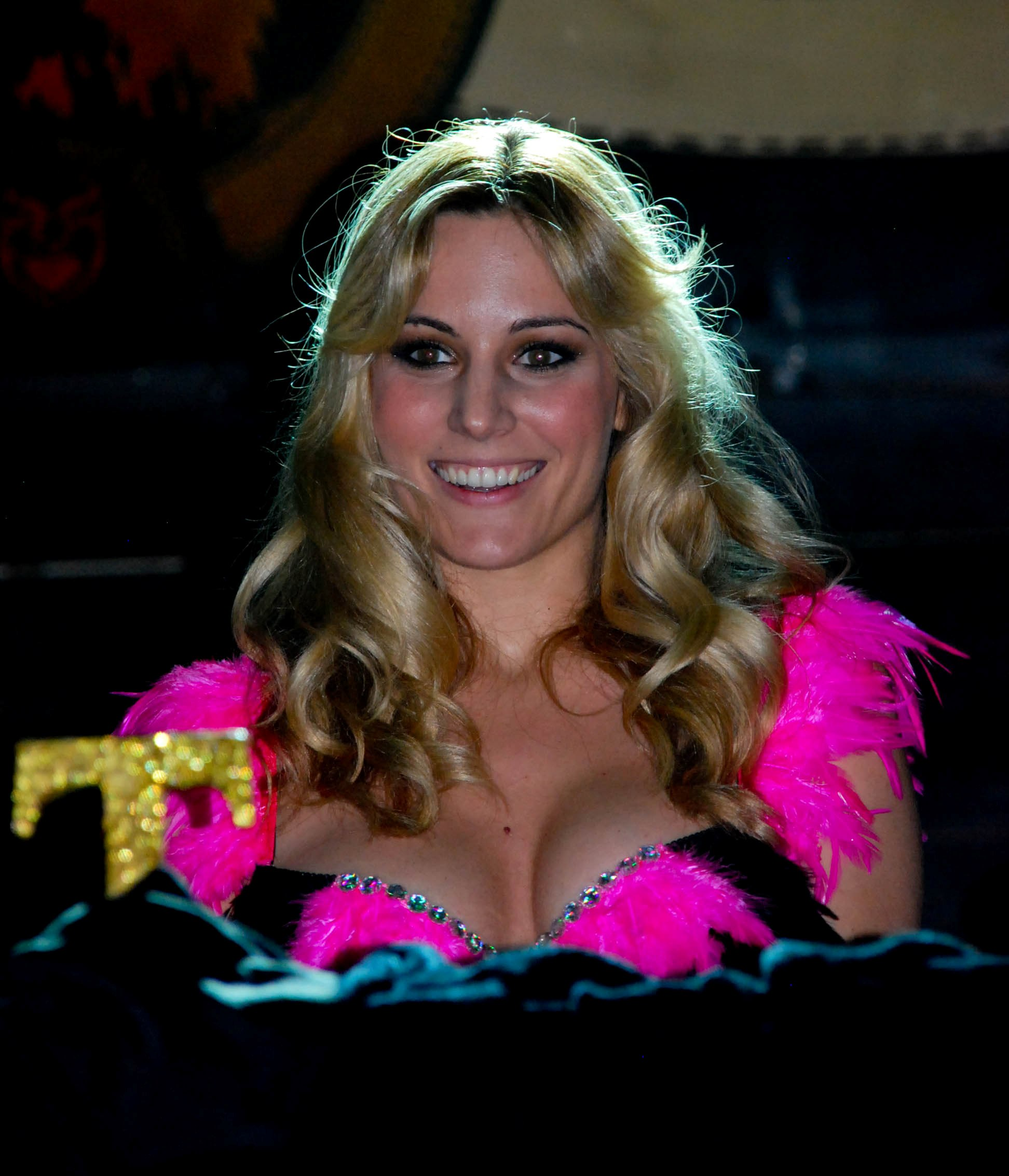 Edurne at the club "Mae West" with DJ Brian Cross (Granada 15/05/11)